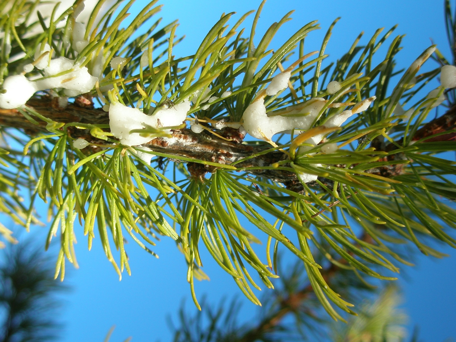 Larix lyallii foliage with sugary exudation, Rune Lake, Enchantments, Alpine Lakes Wilderness, Washington